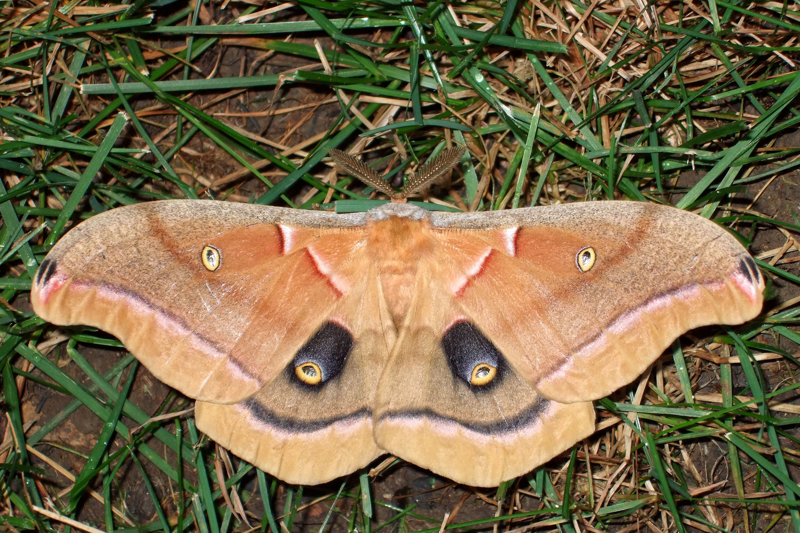 Antheraea polyphemus